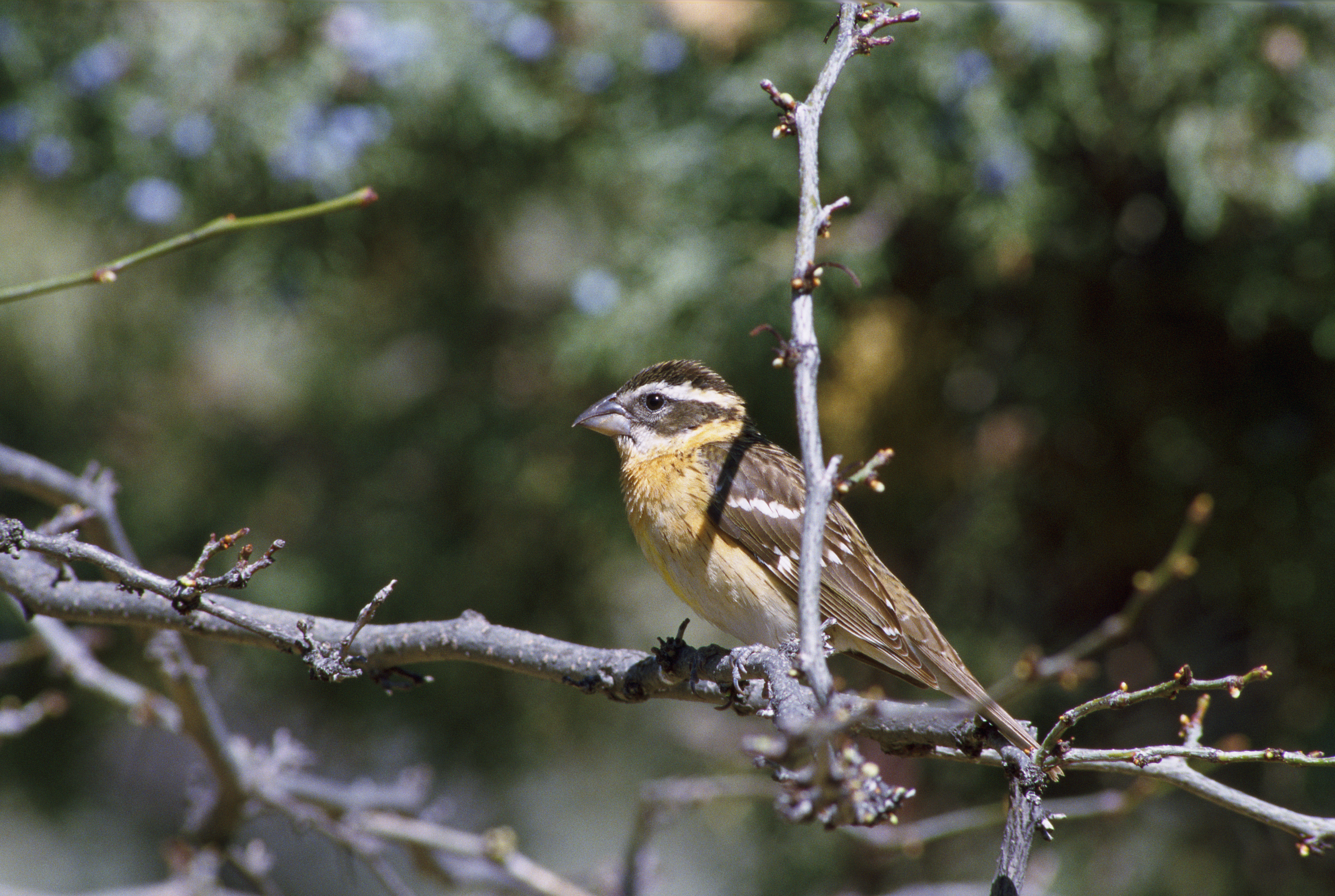 Female Black-headed Grosbeak (Pheucticus melanocephalus) photographed in the Tule Lake National Wildlife Refuge